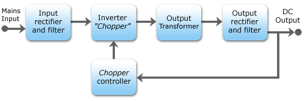 I created this image myself, based on the previous image on the wikipedia article "Switched-mode power supply" (18 January 2006).